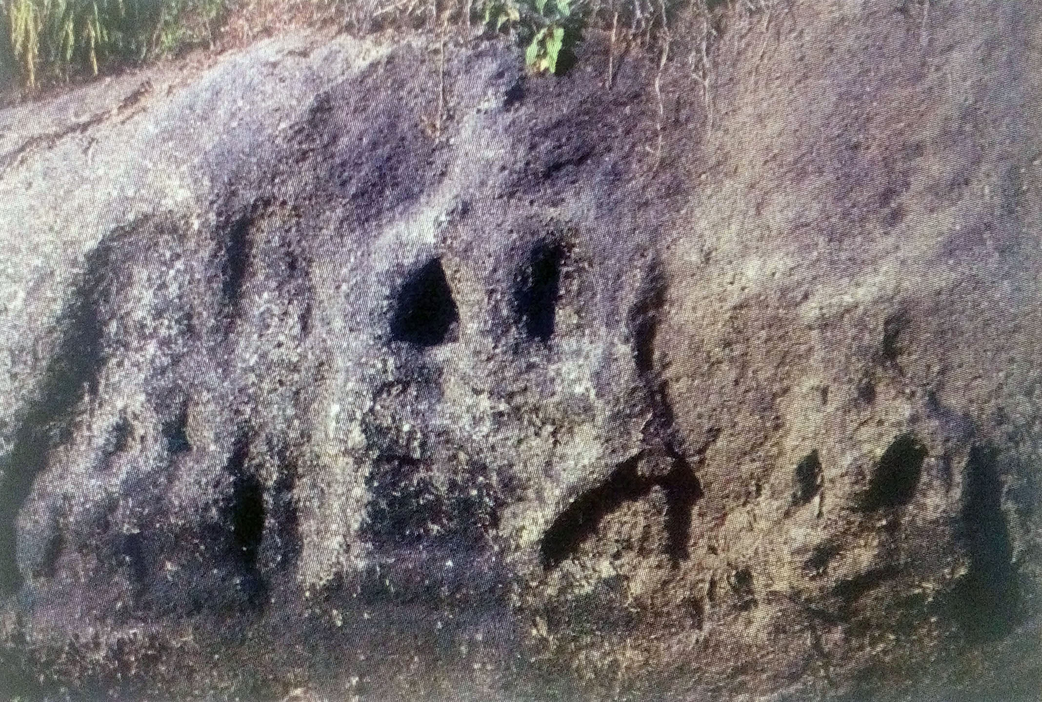 Buddhist Rock Carvings in Manglawar